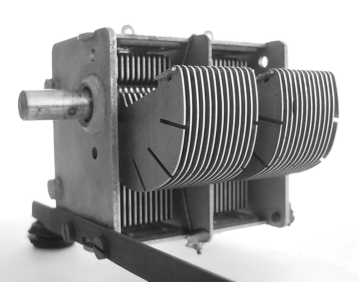 Rotary variable capacitor manufacturer: "DIORA" (Poland), 1953